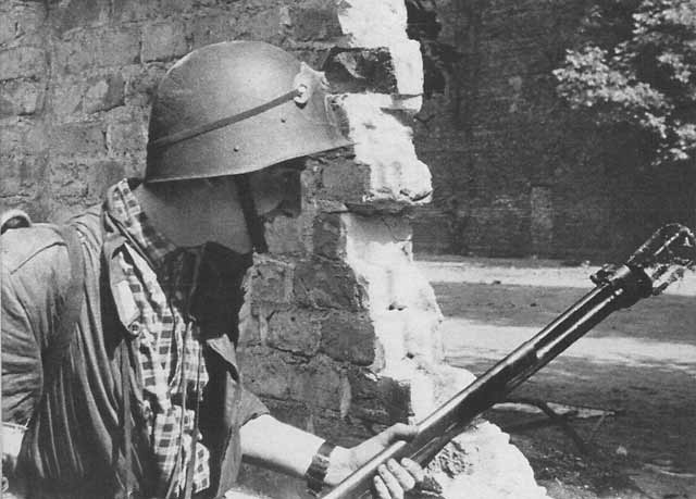 Warsaw Uprising: Insurgent with from Ruczaj Battalion carries a mark K flamethrower before fight for "Mała PASTa" building. Note Polish wz.31 helmet.